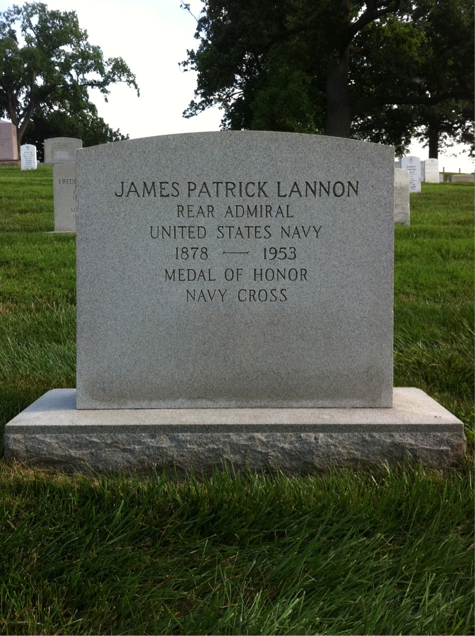 Grave of James Patrick Lannon at Arlington National Cemetery